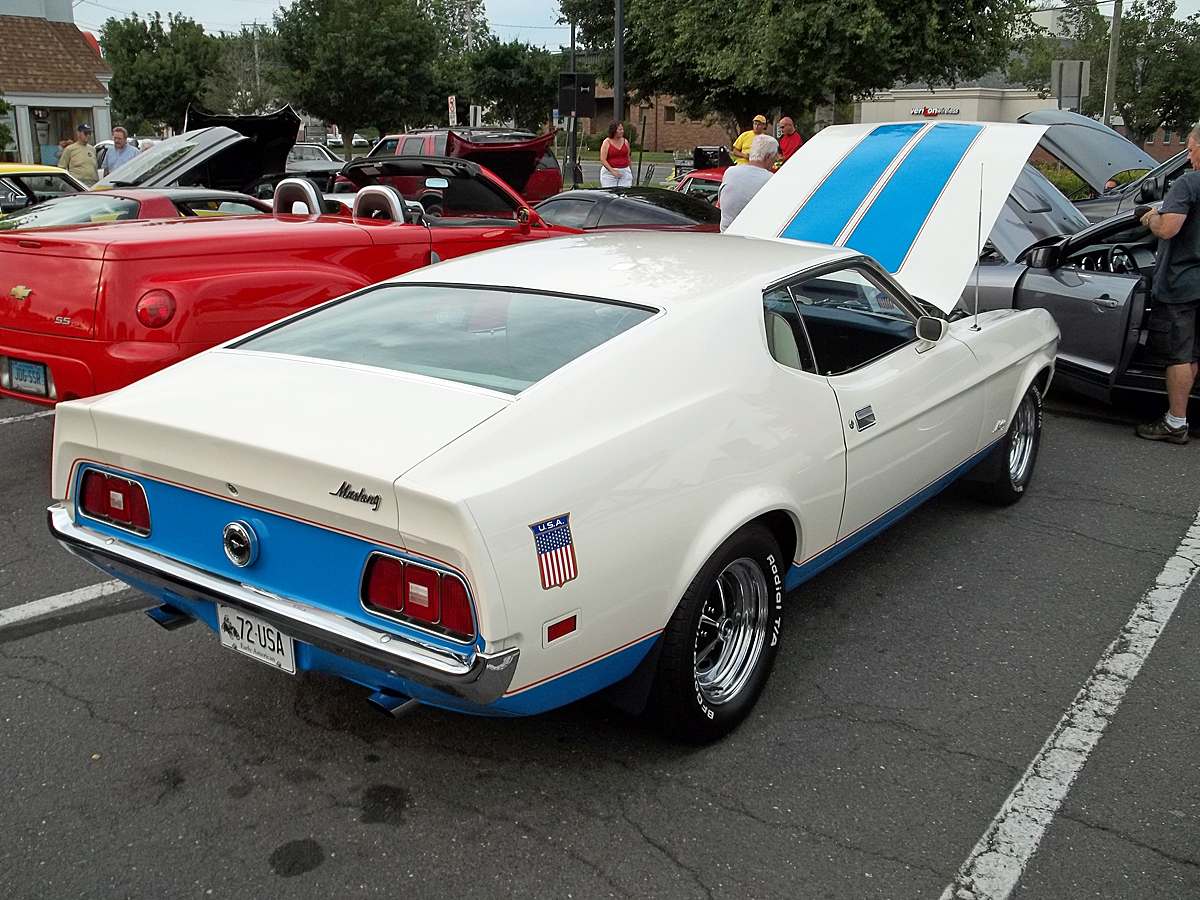 I went to a local cruise night tonight and took a few pics for you all. During 1972, Ford offered a special eye-catching "Red, White & Blue" color styling package with bold USA Shield decals to commemorate the 1972 USA Olympic Team. For